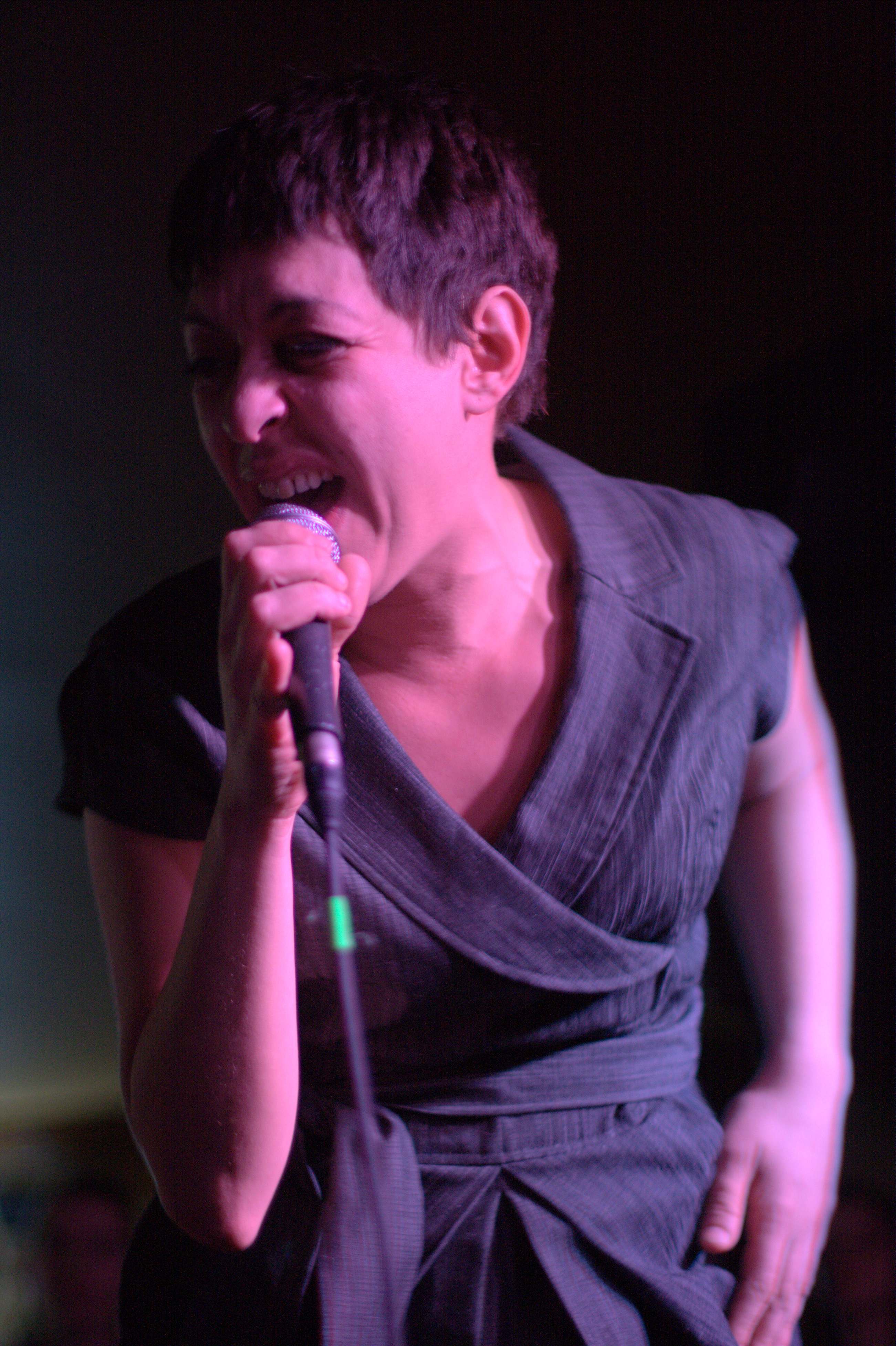 Friday March 13'th 2009 The Live Lounge (live 88.5fm) Ottawa, Ontario Beast Betty Bonifassi Jean-Phi Goncalvès